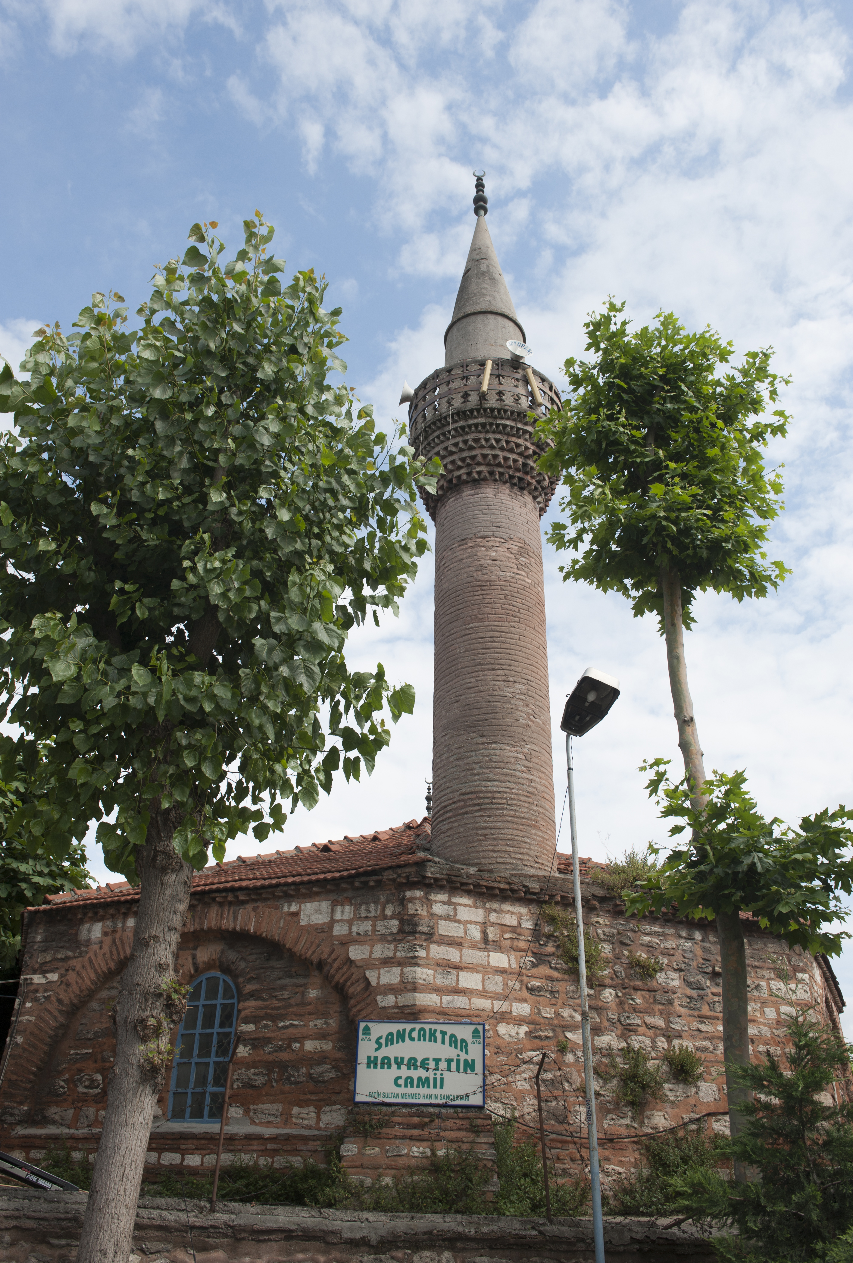 It dates probably to the end of the 14th century. Though Strolling through Istanbul refers to it as a (former) church, the Wikipedia claims that for its small size it probably was a martyrion or burial chapel. It is an irregular octagon with an apse oriented towards the east. The masonry uses alternate courses of brick and ashlar, giving to the exterior the polychromy typical of the Palaiologan period. Remnants of walls still present in the northwest and south sides before the restoration showed that the building was not isolated, but connected with other edifices. A minaret has also been added to the restored building. Restoration was necessary after the 1894 Istanbul earthquake, which had its epicentre under the Sea of Marmara, partially destroyed the mosque, which was restored only between 1973 and 1976.